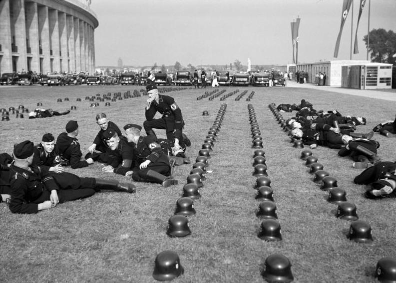 SS men resting on the lawn adjacent to the Olympiastadion in Berlin